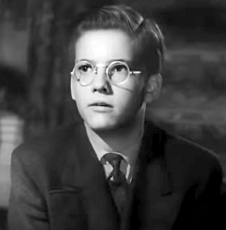 Mickey Kuhn in The Strange Love of Martha Ivers - cropped screenshot